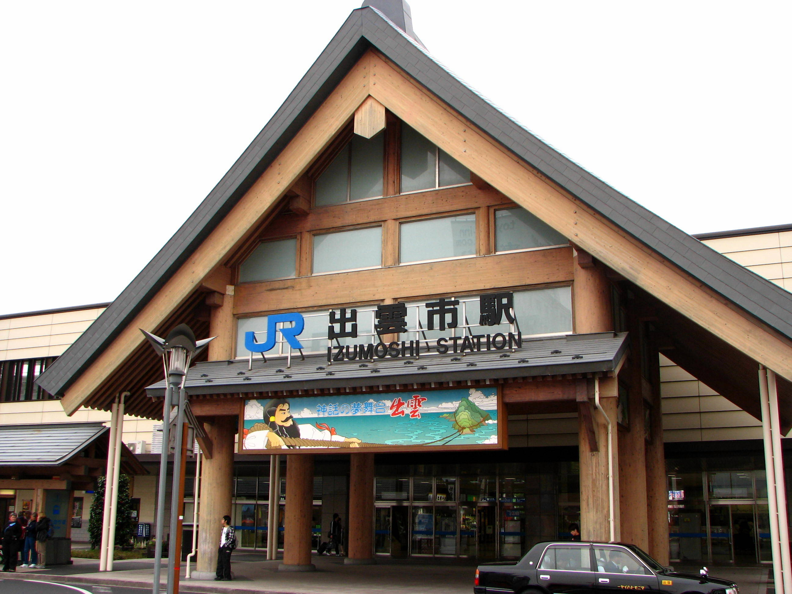 Izumoshi Station, Izumo, Shimane Prefecture, Japan